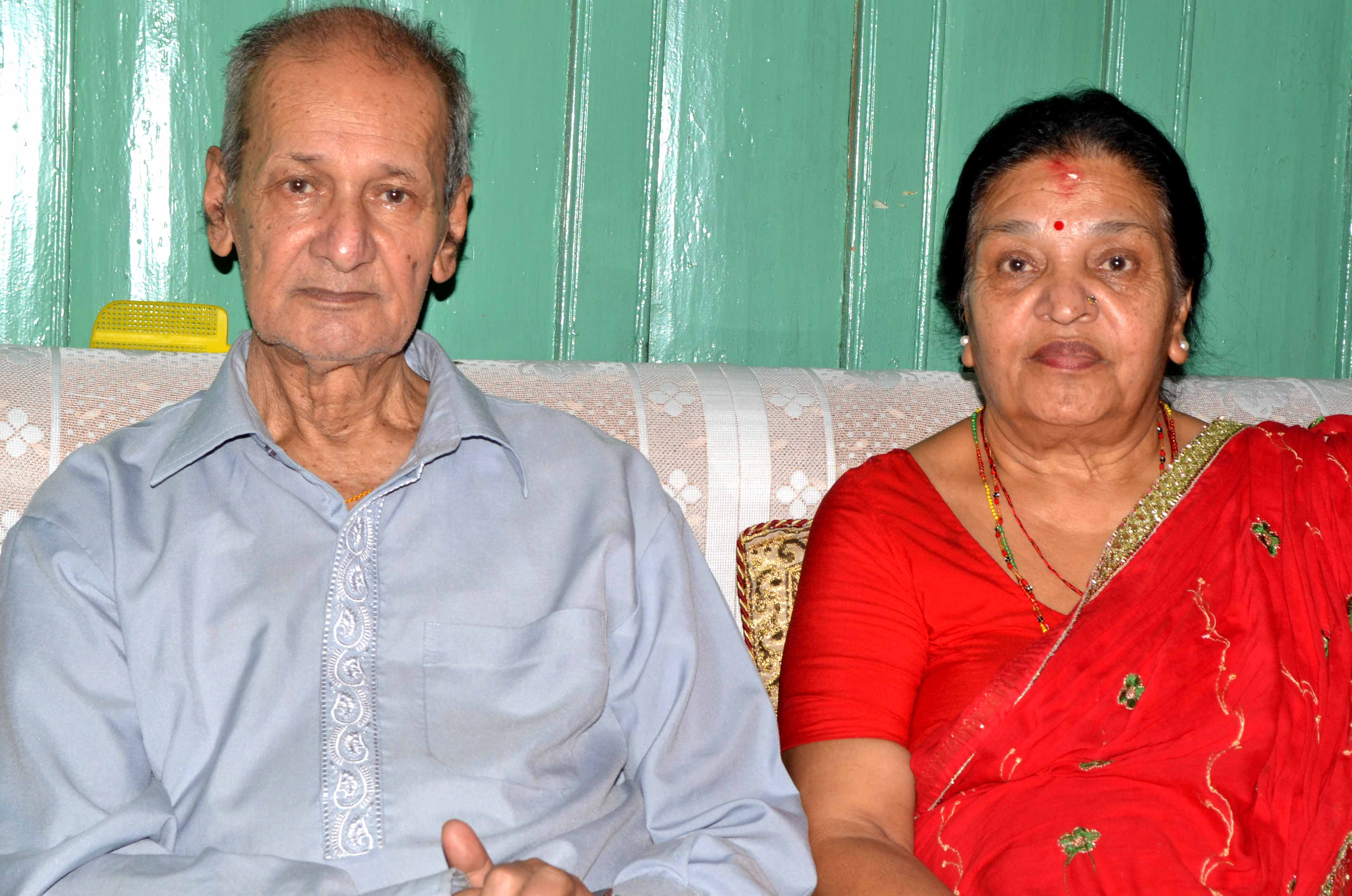 Nirmal kumar Rimal at home with wife .